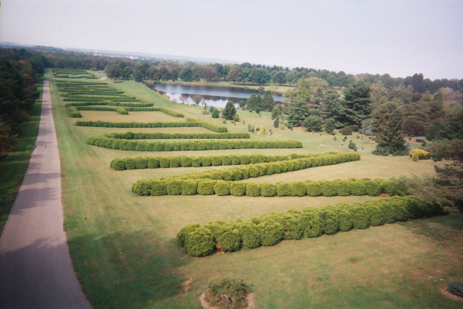 Dawes Arboretum near Newark, Ohio